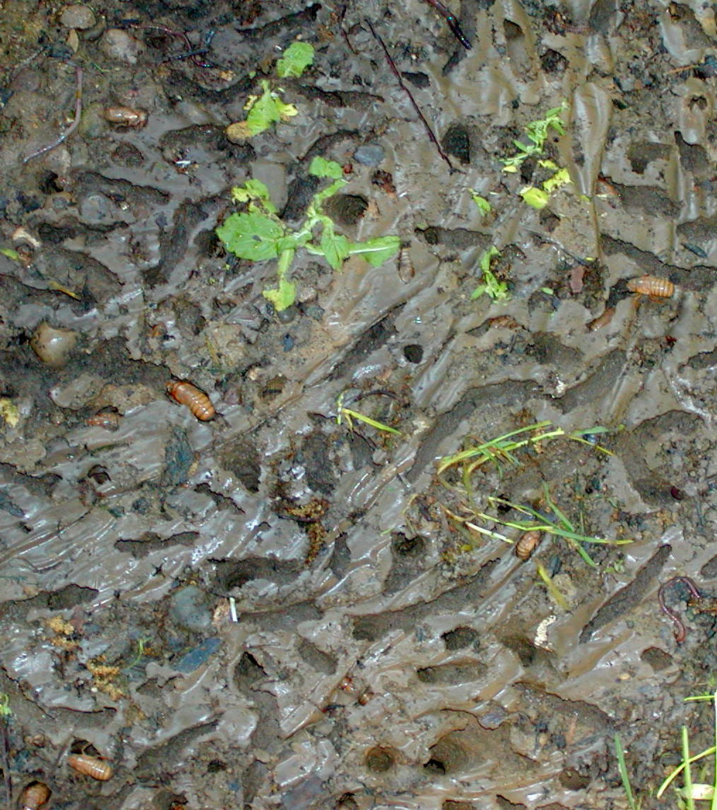 Emergent swarm of 17 year locust in 2004.